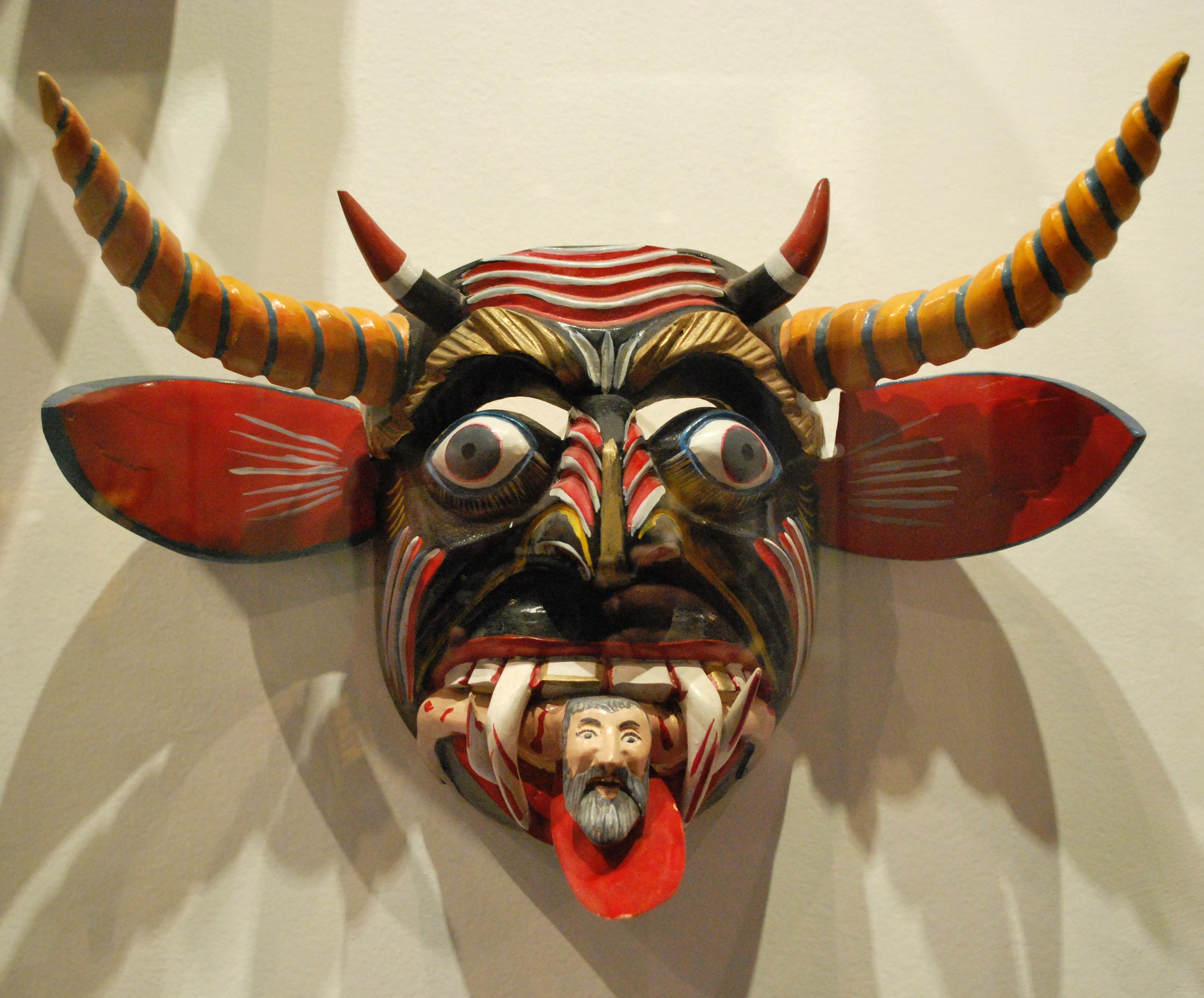 Traditional devils mask for the Pascuarela Play of Tocuaro, Michoacan. On display at the Museum of Artes Populares in Mexico City